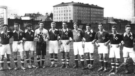 TPV Tampere, winners of the 1932 Finnish Workers' Sport Federation football championship (TUL Cup). Pyynikki Stadium, Tampere, Finland.